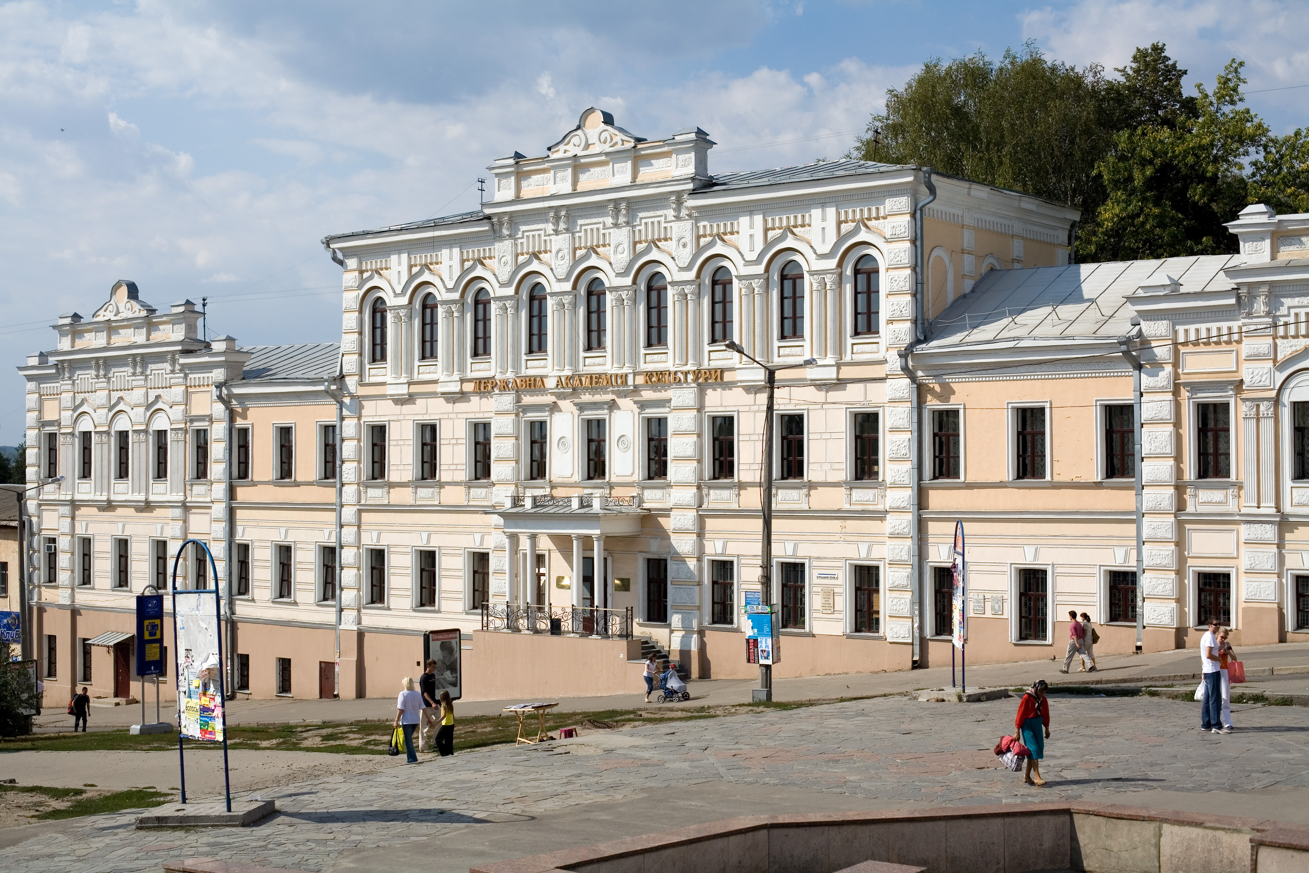 Culture Academy (Kharkov). Building of 1840s.